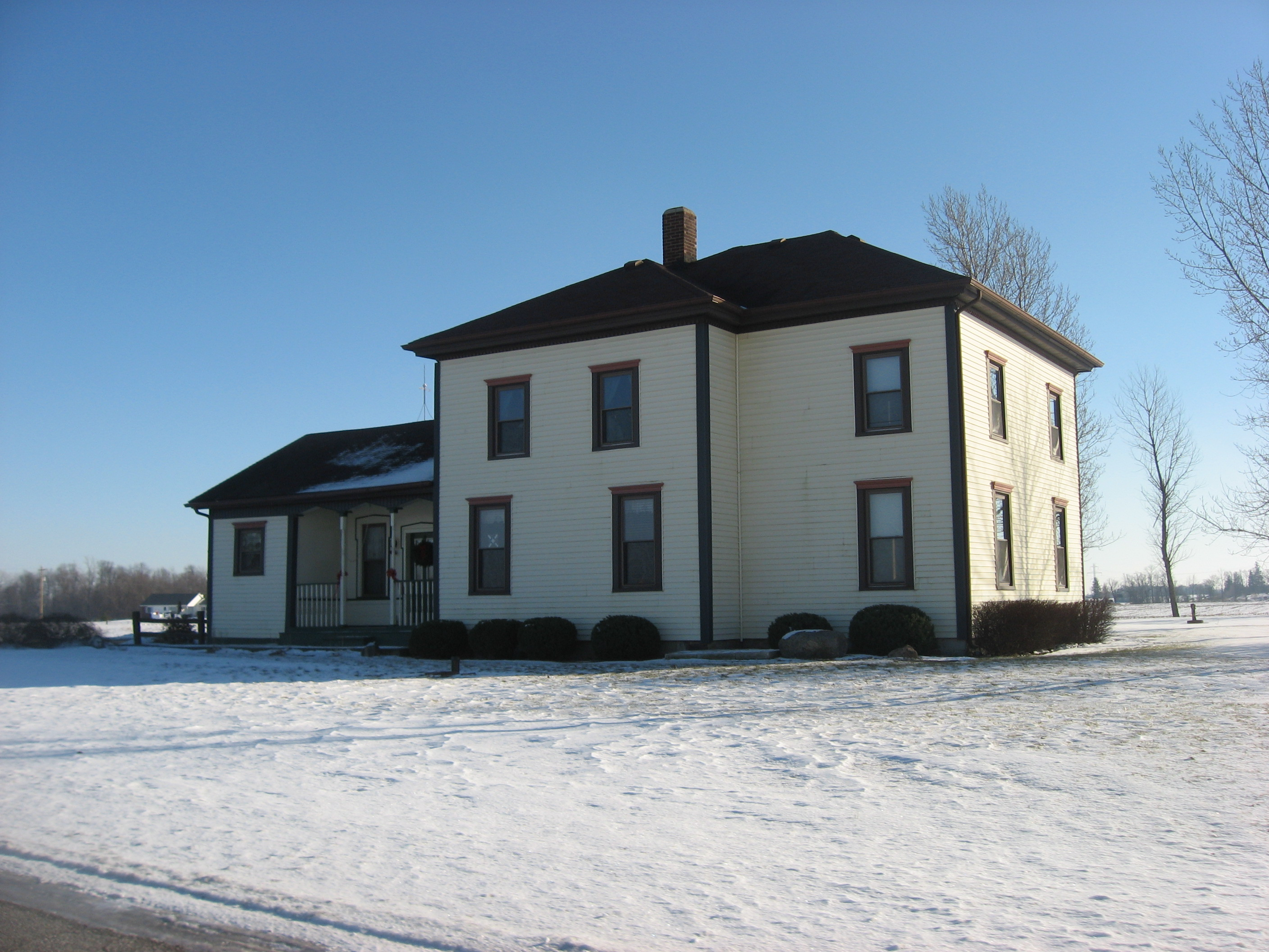 Front and western side of the Orin Clark House, located at 348 County Road 48 west of Garrett in Keyser Township, DeKalb County, Indiana, United States. Built in 1870, it is listed on the National Register of Historic Places.